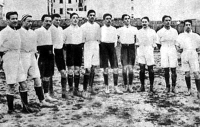 Photo of Italian football team at first match against France in 1910 at Arena Civica in Milan. Footballer: Mario De Simoni Francesco Calì (Captain) Franco Varisco Domenico Capello Virgilio Fossati Attilio Trerè Franco Bontadini Giuseppe Rizzi Aldo Cevenini Pietro Lana Arturo Boiocchi Enrico Debernardi Head coach: Umberto Meazza